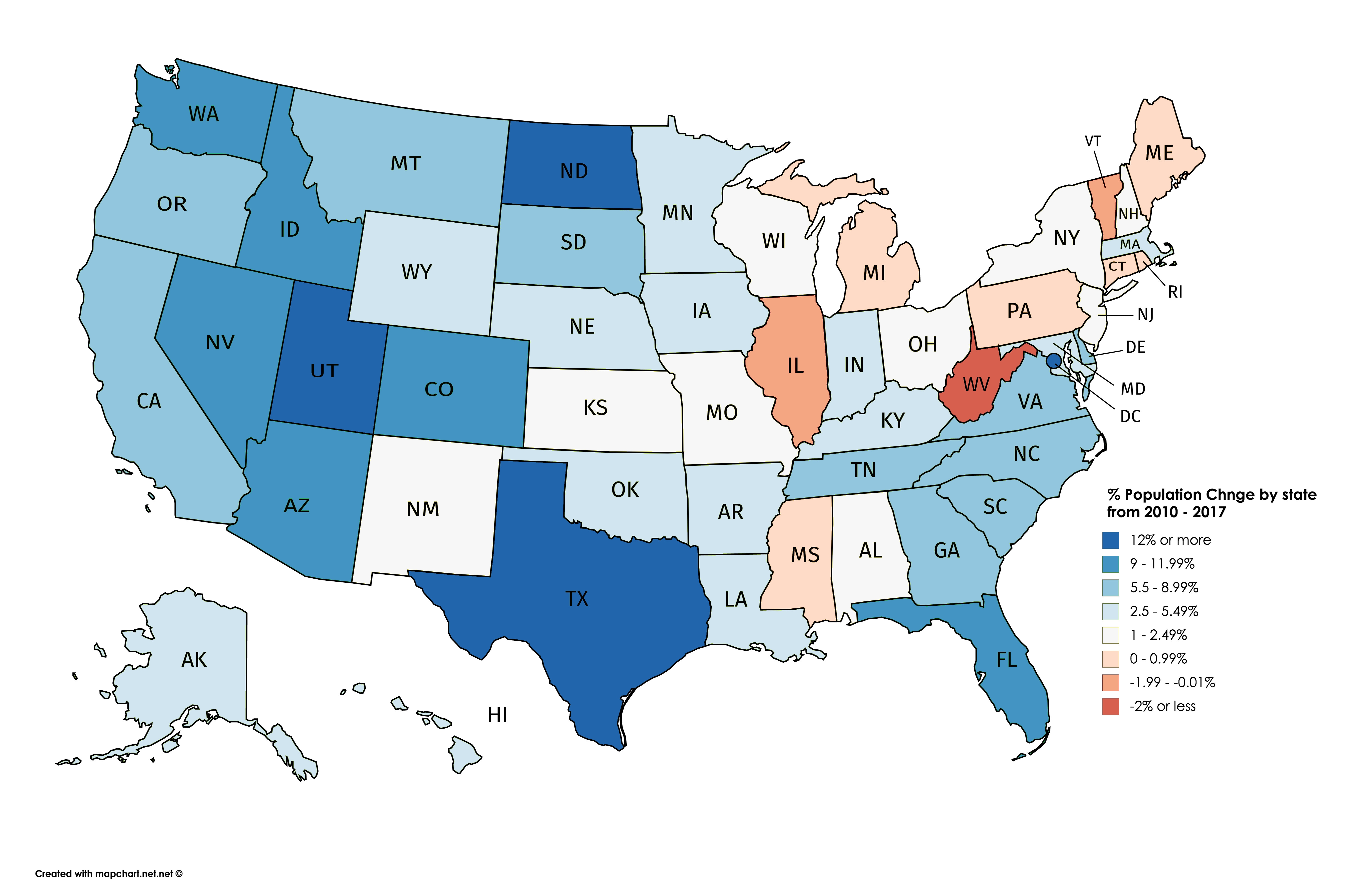 % population change from 2010 - 2017; made it mayself